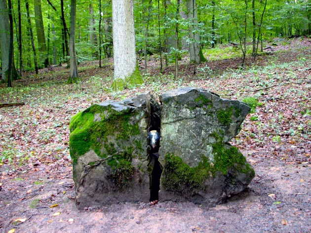 "Weg der Besinnung" (way of meditation), Bad Kissingen, Germany - skulpture "core"